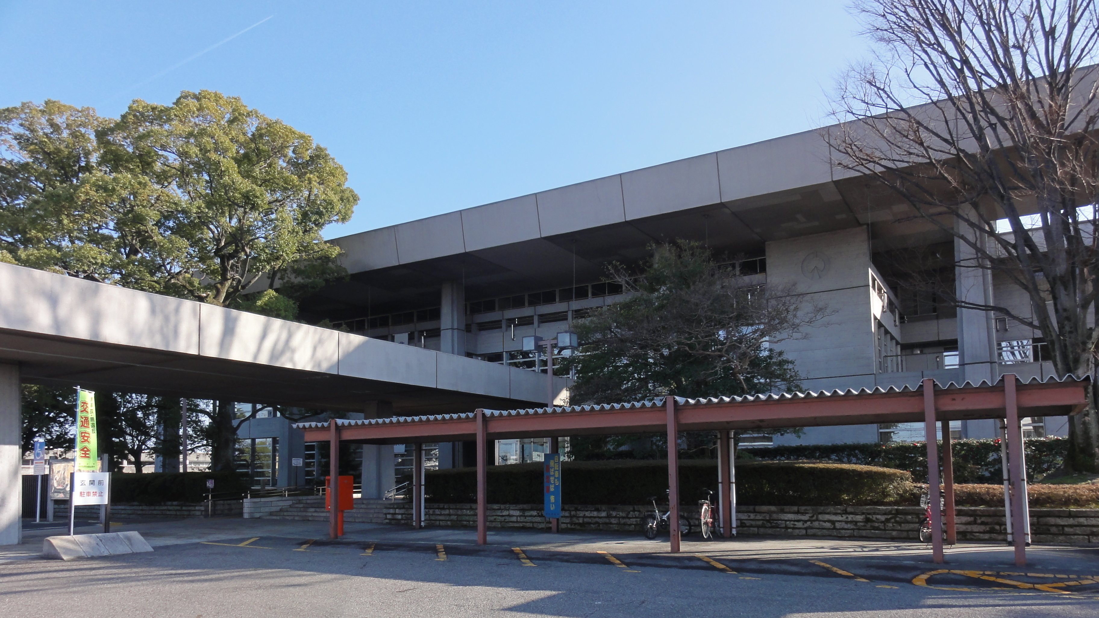 Inazawa city office,Aichi prefecture,Japan